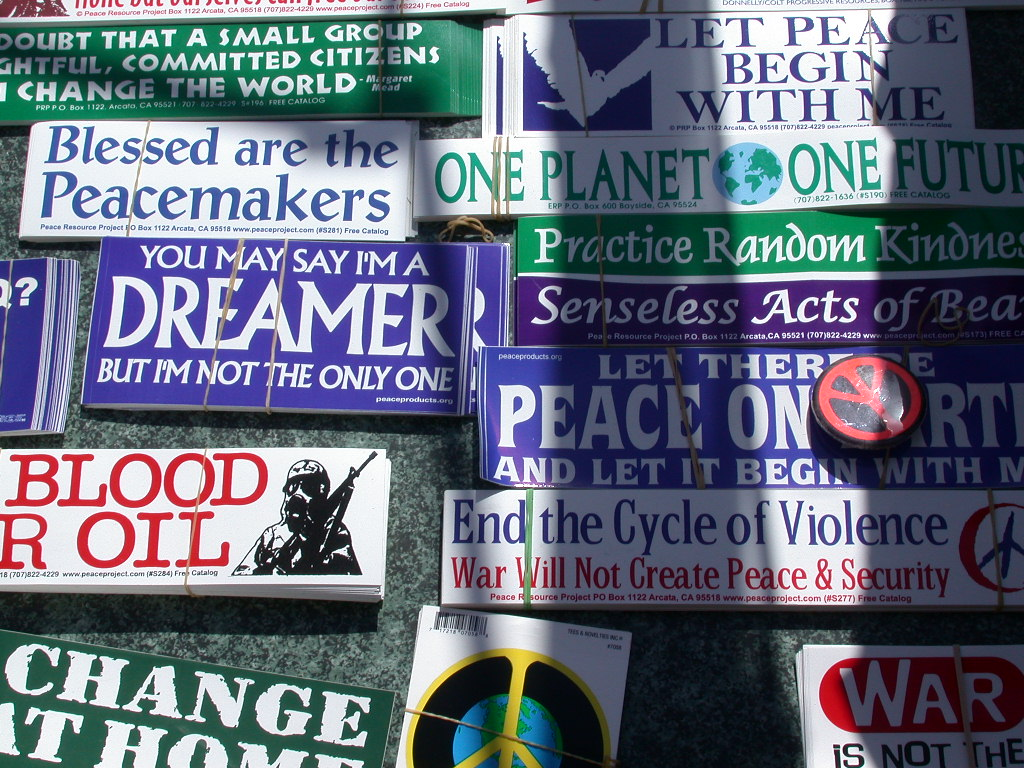 Peace stickers, Washington D.C., March 15 2003